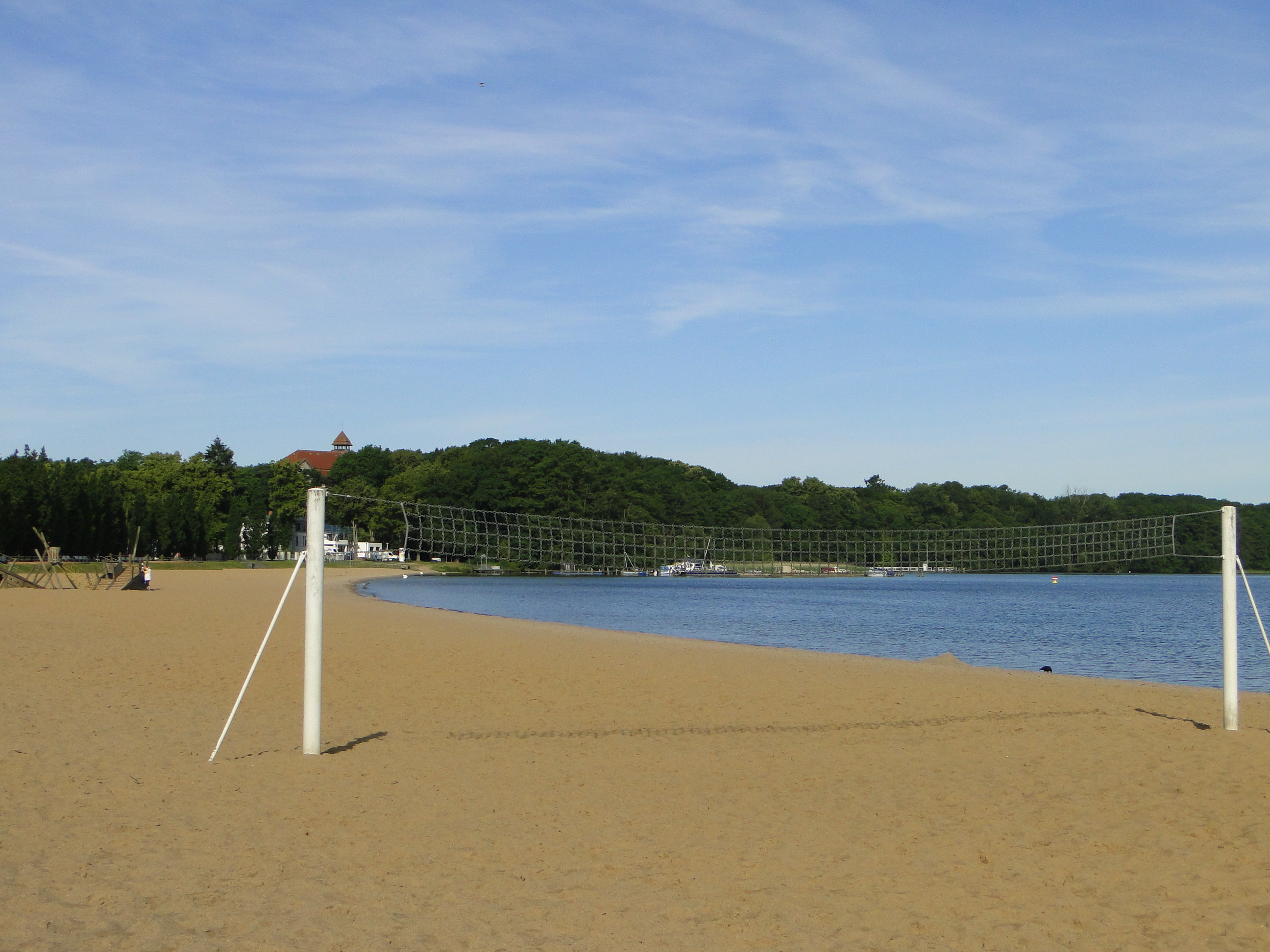 Zippendorf beach in Schwerin, Mecklenburg-Vorpommern, Germany